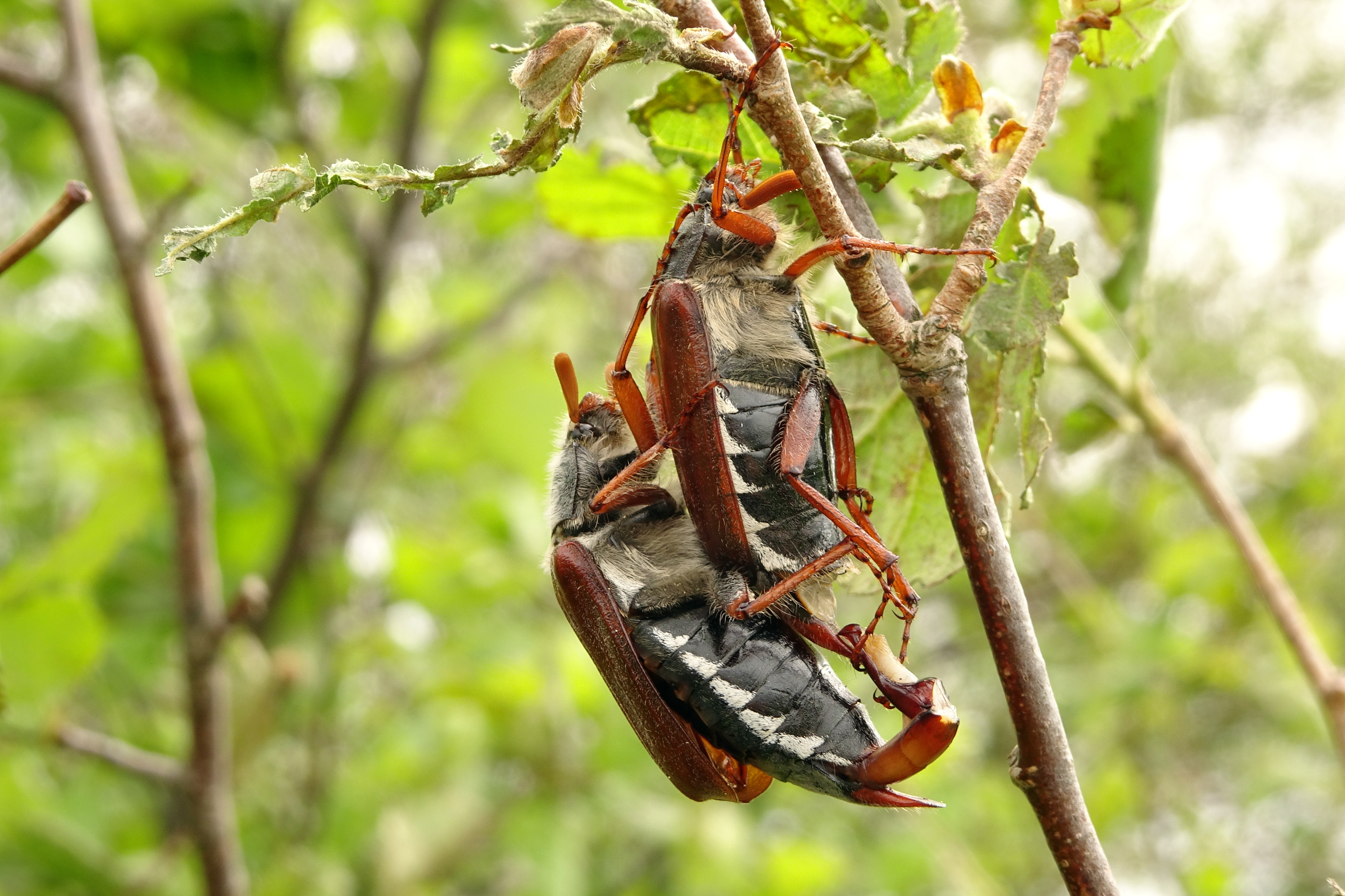 Melolontha melolontha mating pair, at Badberg nature reserve, Kaiserstuhl, Baden-Württemberg, Germany.